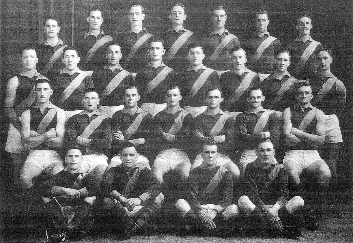 Team of Williamstown FC, premiers